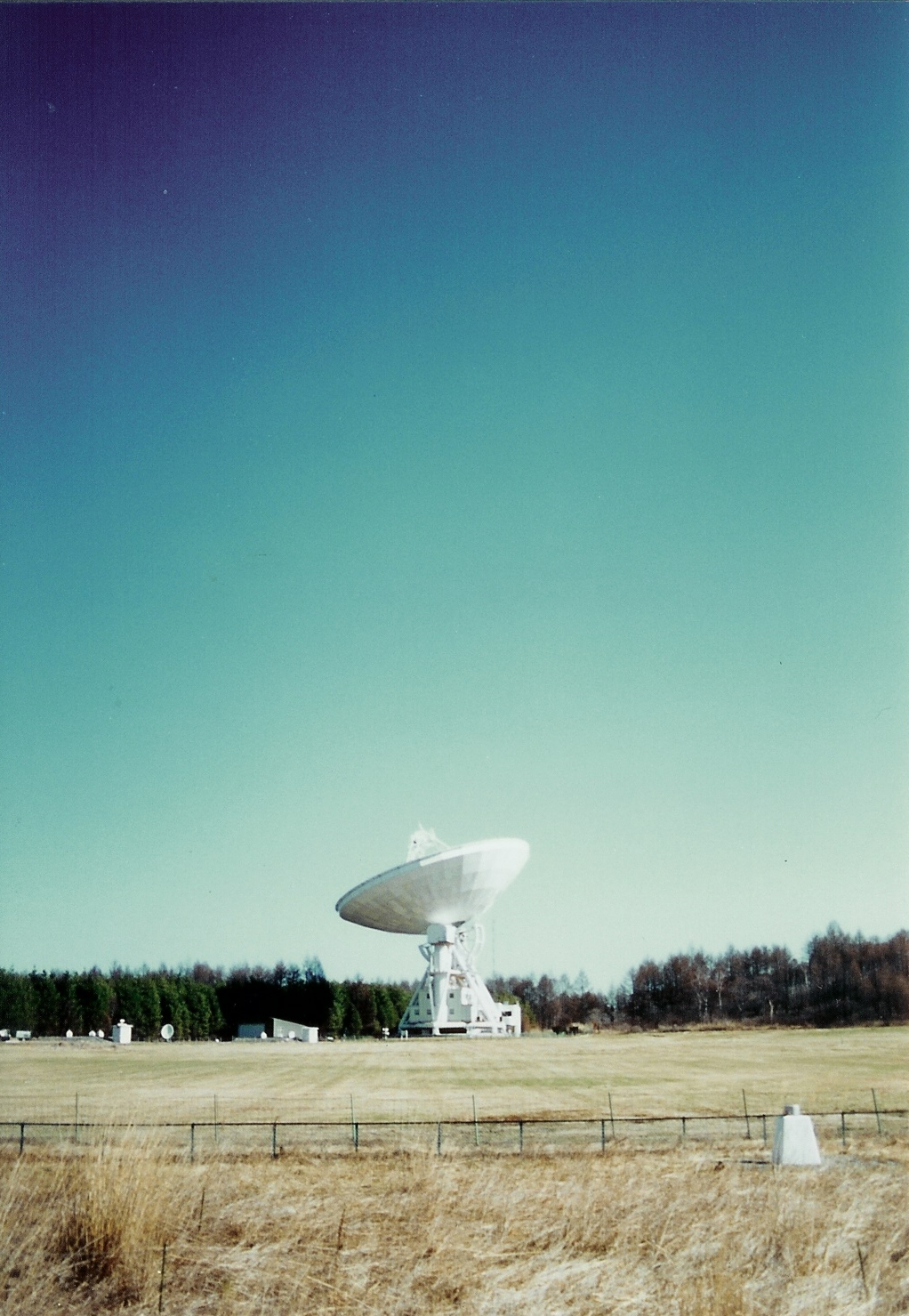 Picture of Nobeyama 45m radio telescope